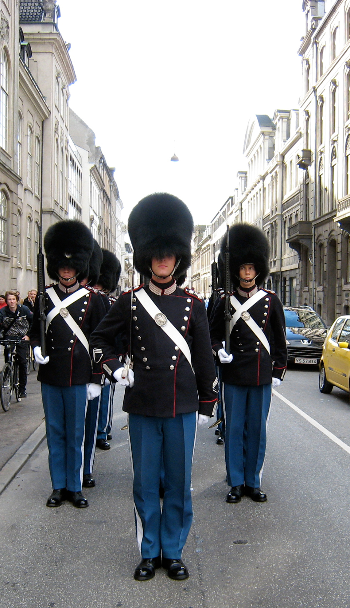 Soldiers waiting on a red traffic light during change of guard at Amalienborg, Copenhagen.